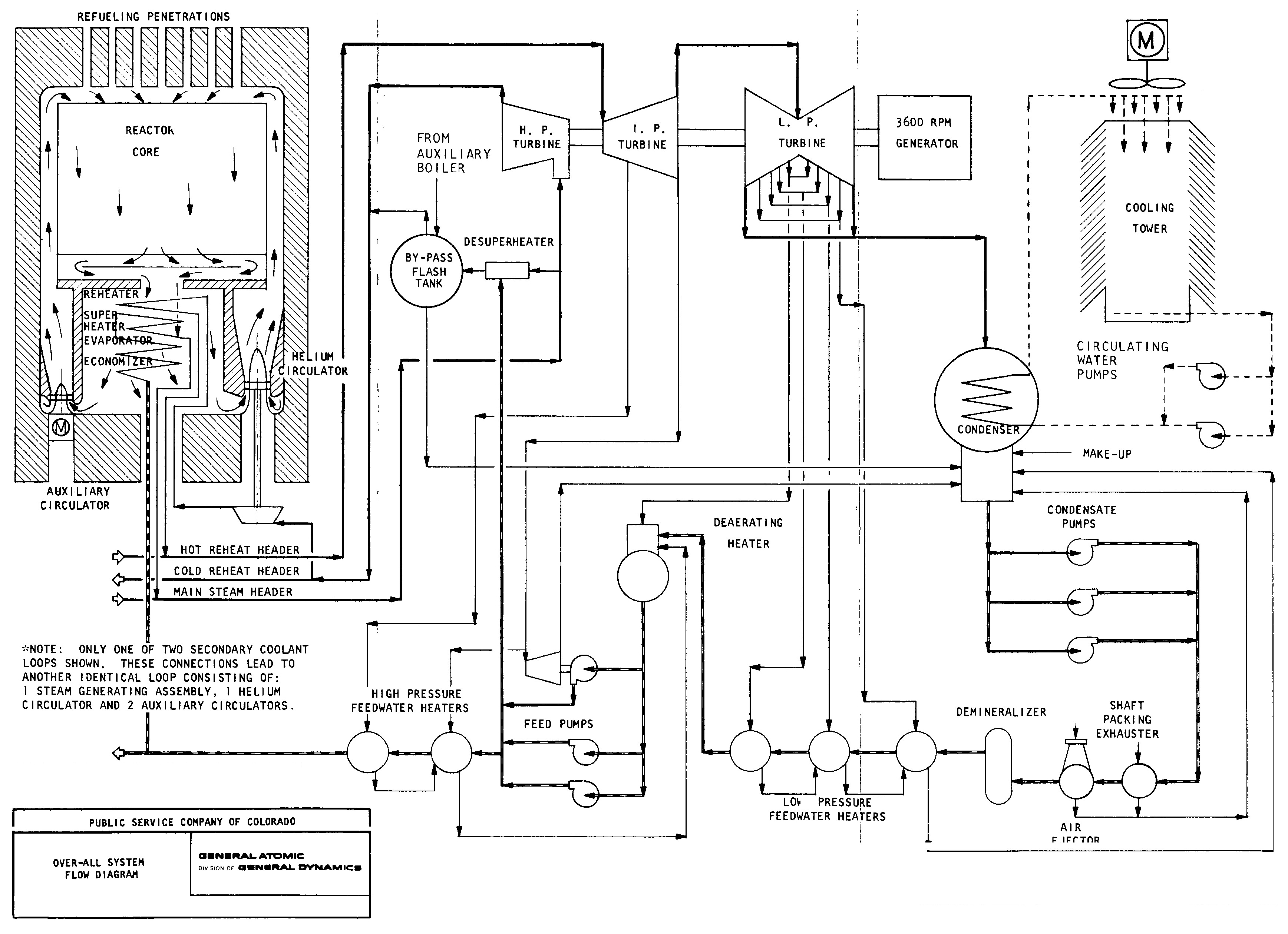 Fort St. Vrain Generating Station. Systems Diagram.